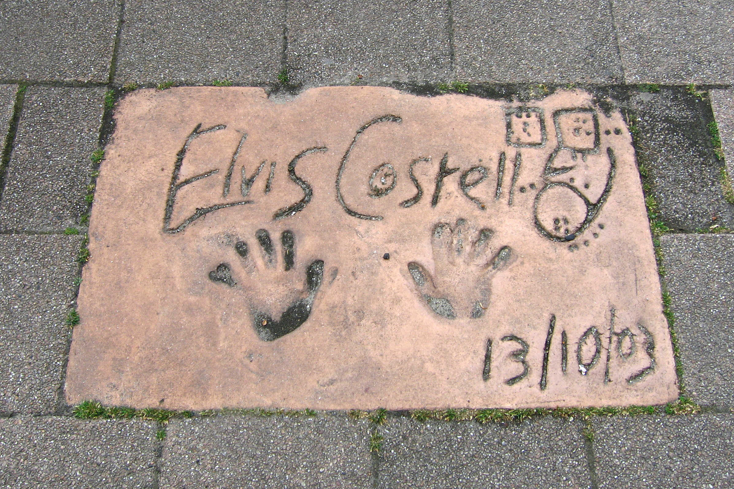 Elvis Costello, on the European Walk of Fame